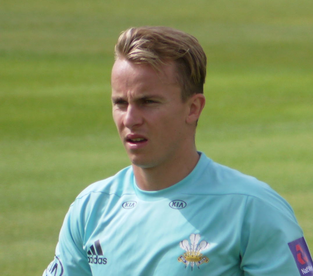 Tom Curran playing for Surrey against Somerset in the 2017 NatWest t20 Blast.